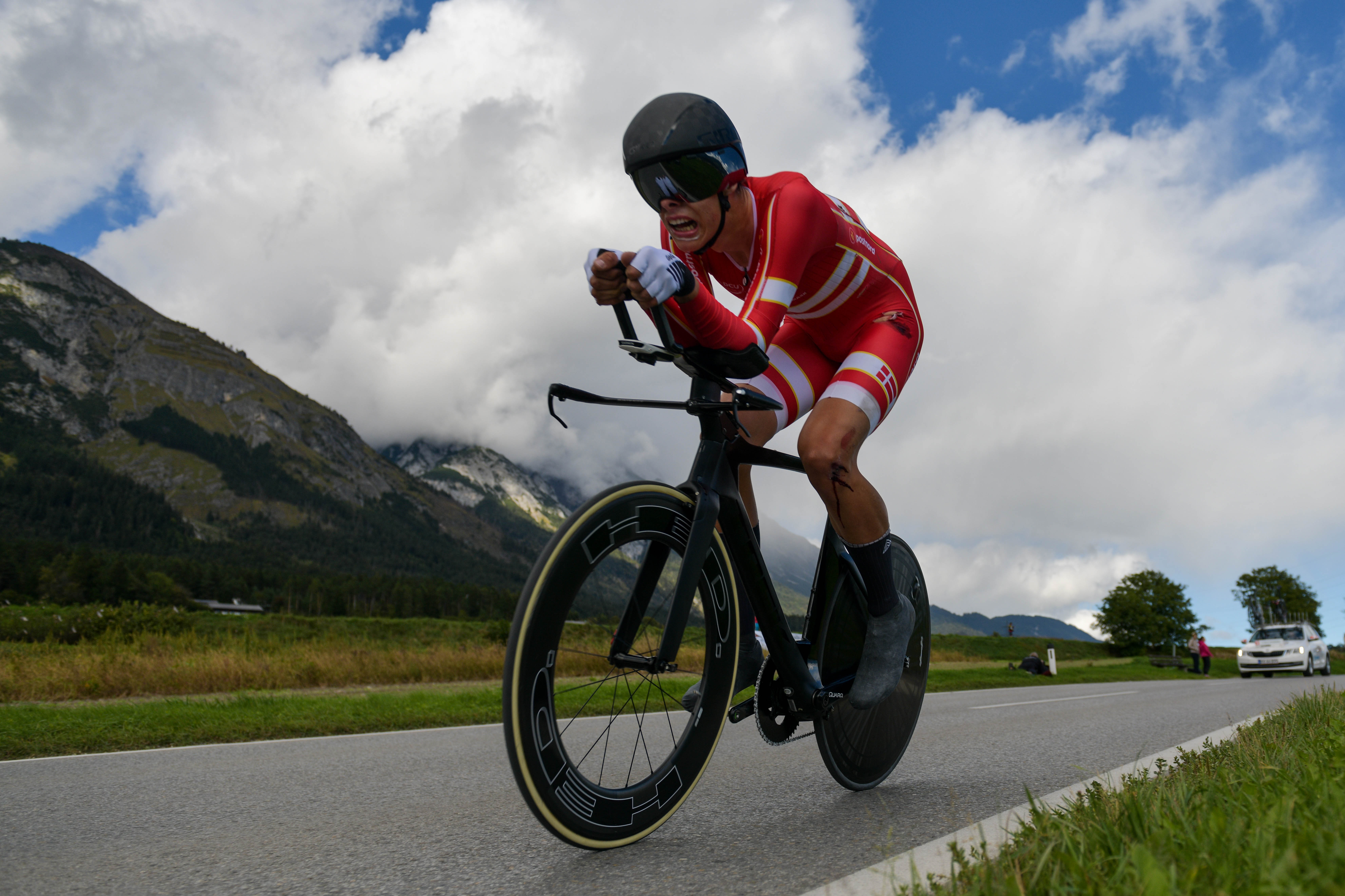 2018 UCI Road World Championships Innsbruck/Tirol Men under 23 Individual Time Trial. Picture shows: Johan Price Pejtersen of Denmark